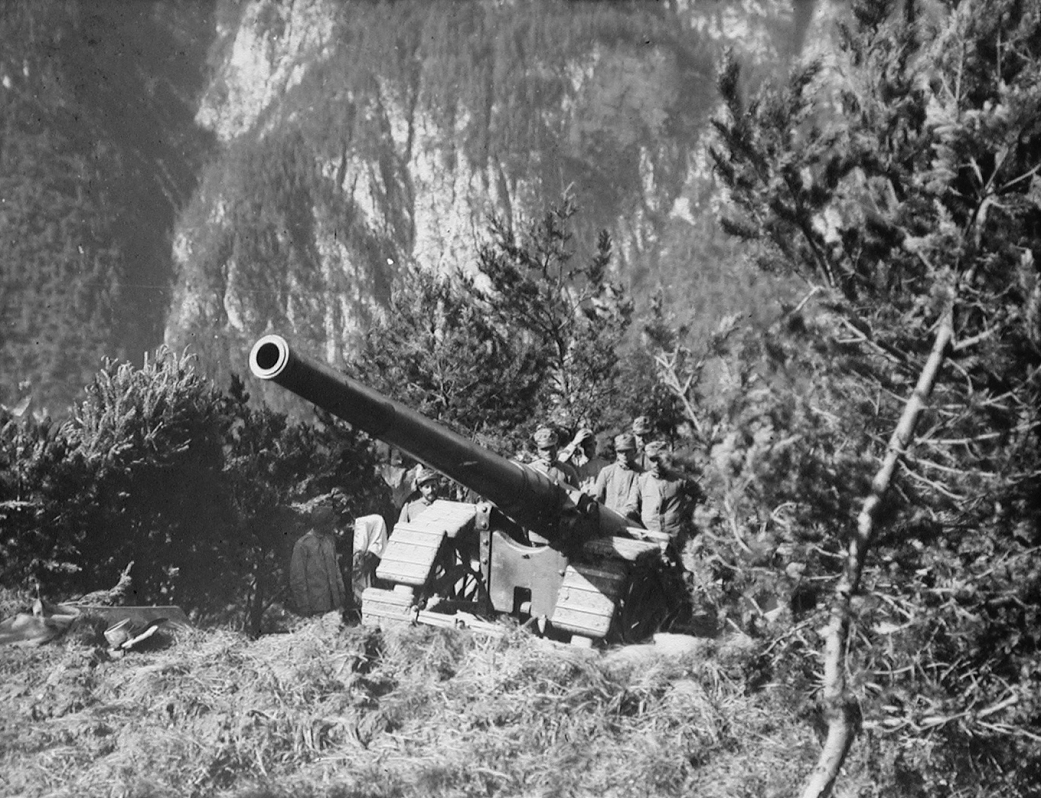 World War 1 - Italian Army: Italian 149/A howitzer in the Carnian Alps